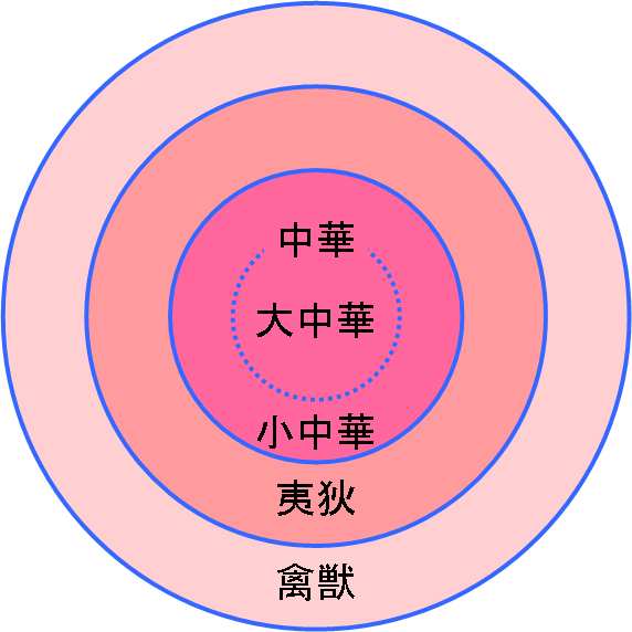 Sojunghwa